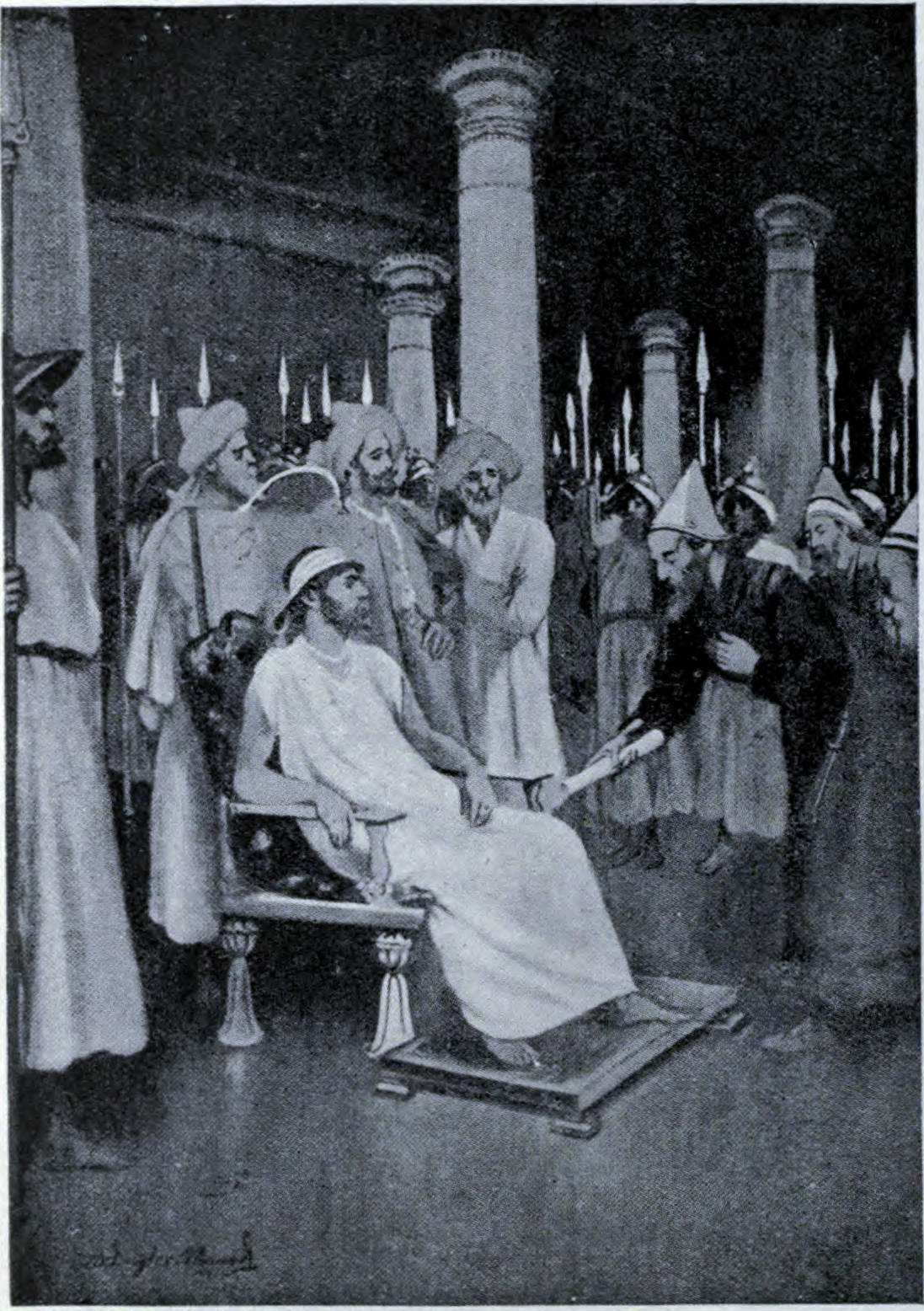 Hutchinson's story of the nations, containing the Egyptians, the Chinese, India, the Babylonian nation, the Hittites, the Assyrians, the Phoenicians and the Carthaginians, the Phrygians, the Lydians, and other nations of Asia Minor.